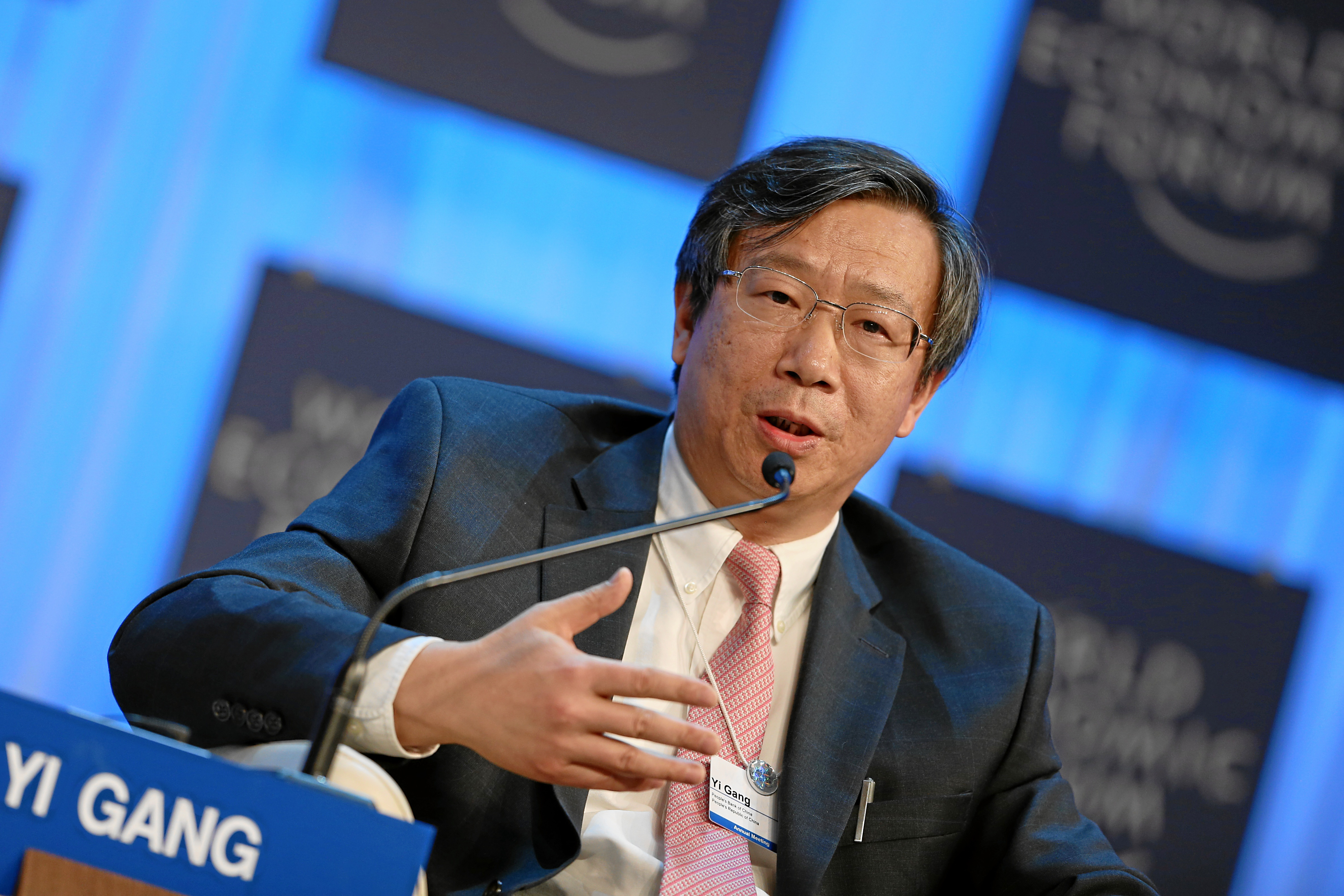 DAVOS/SWITZERLAND, 26JAN13 - Yi Gang, Deputy Governor, People's Bank of China, People's Republic of China speaks during the Session 'The Global Economic Outlook' at the Annual Meeting 2013 of the World Economic Forum in Davos, Switzerland, January 26, 2013.. . Copyright by World Economic Forum. . Moritz Hager